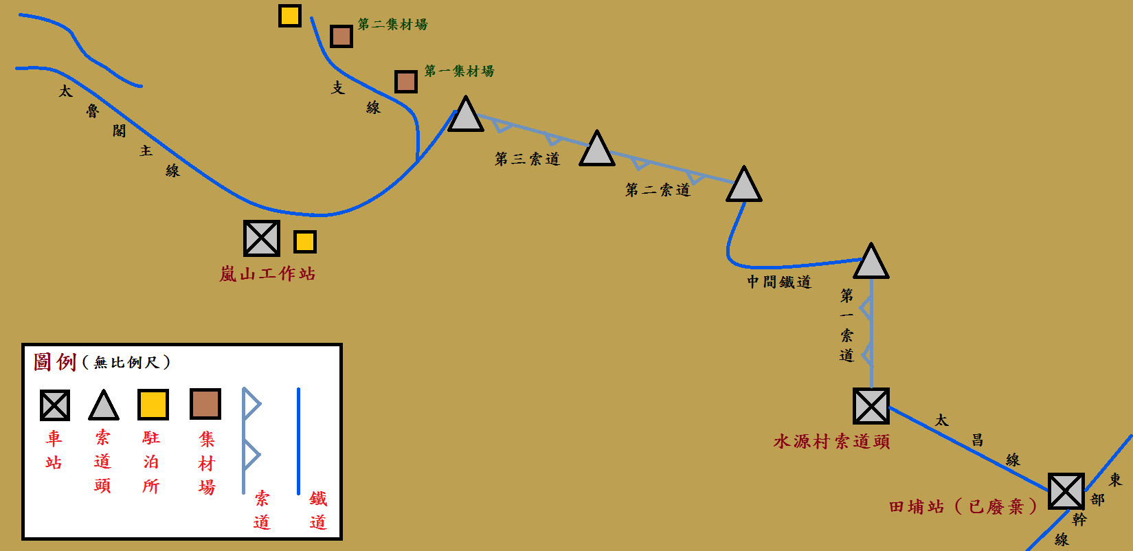 Taiwan Hualien County Arashiyama Mountain railway Route map